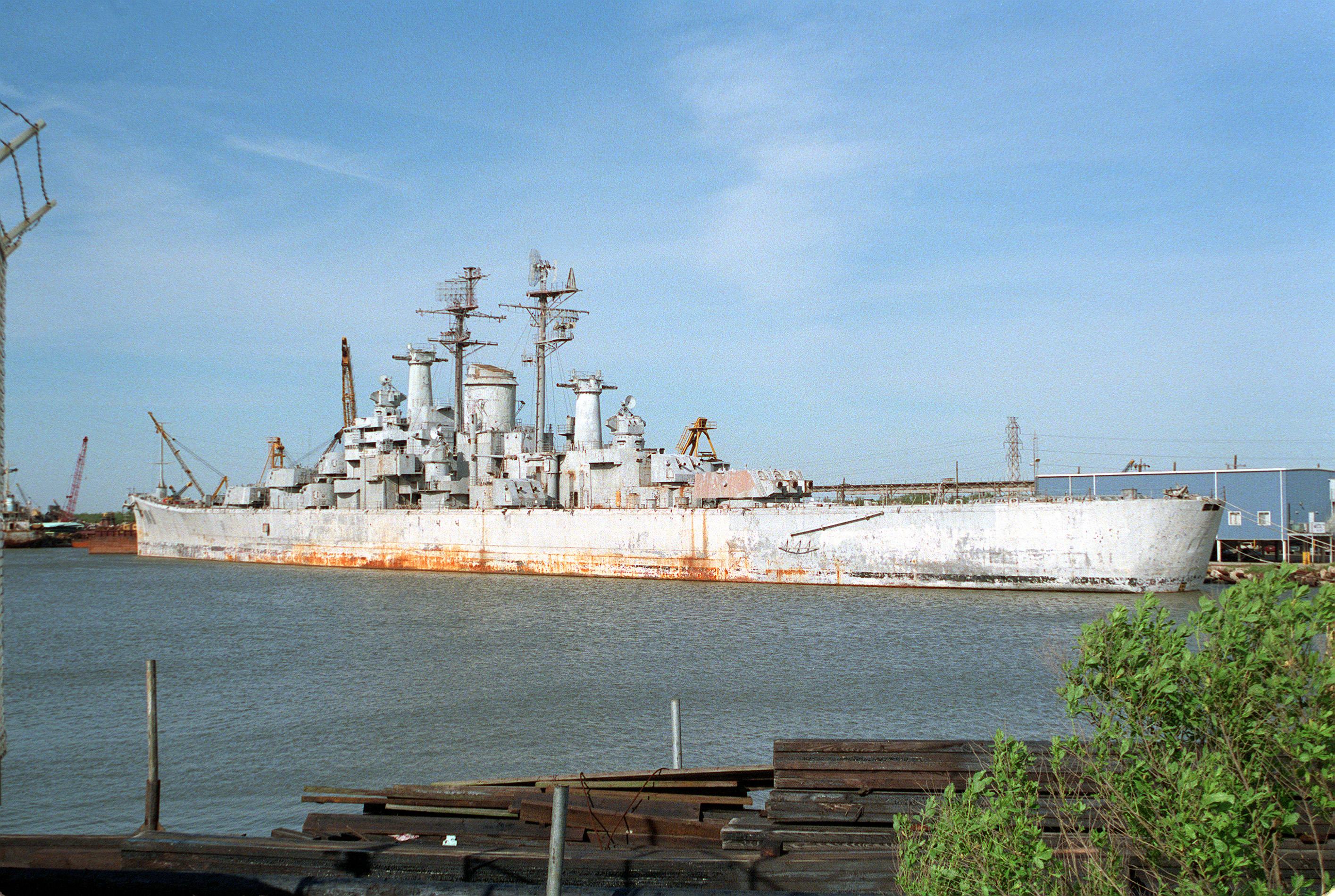 The decommissioned U.S. Navy heavy cruiser USS Newport News (CA-148) stands moored to a pier at the Southern Scrapping Company, New Orleans (USA), in 1993. Newport News had been decommissioned in 1975 and was scrapped in 1993.